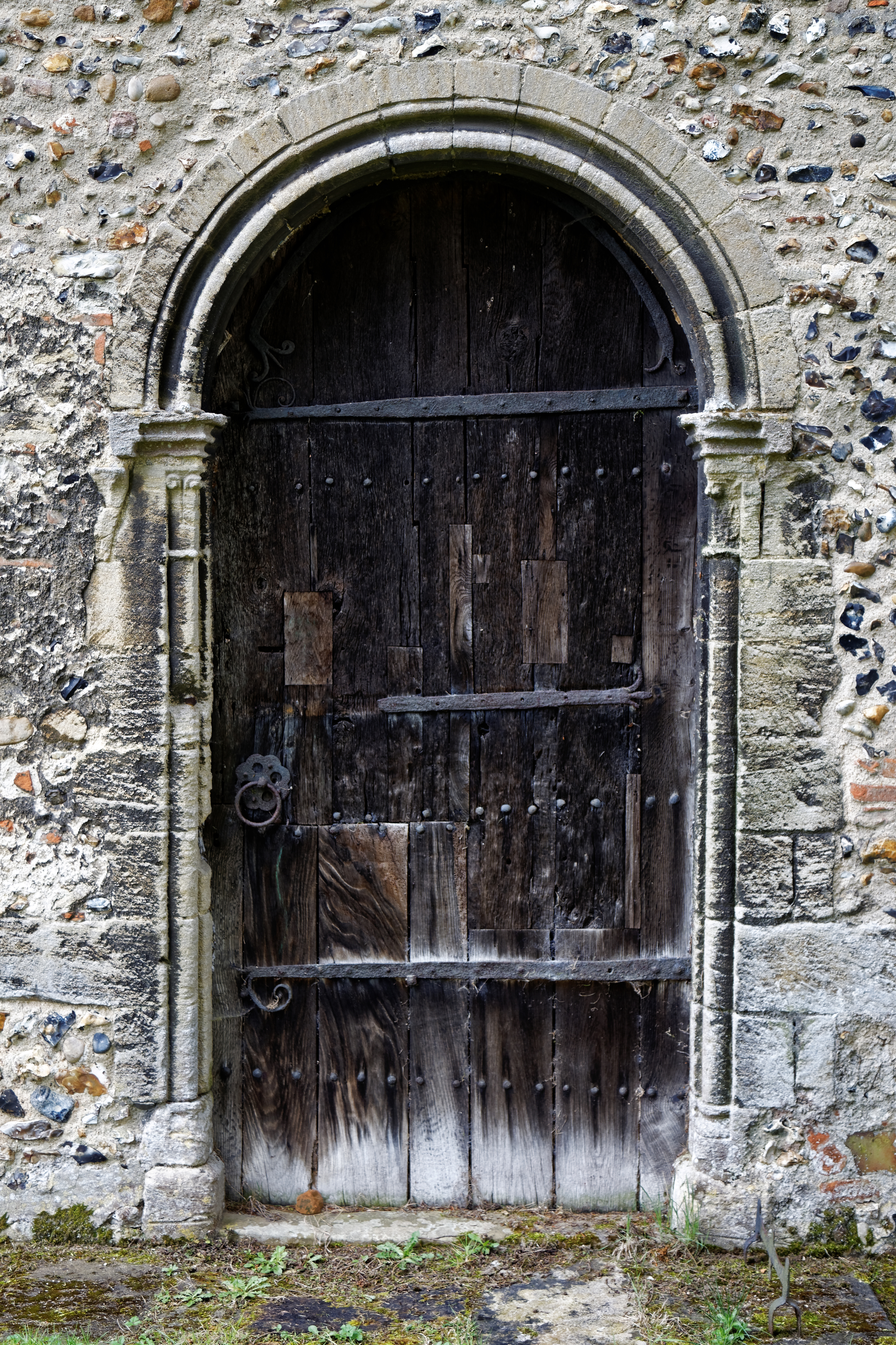 The Norman Romanesque north aisle west door of St Nicholas' Church in Castle Hedingham in Essex, England.Camera: Canon EOS 6D with Canon EF 24-105mm F4L IS USM lens.Software: large RAW file lens-corrected, optimized and downsized with DxO OpticsPro 10 Elite, Viewpoint 2, and Adobe Photoshop CS2.